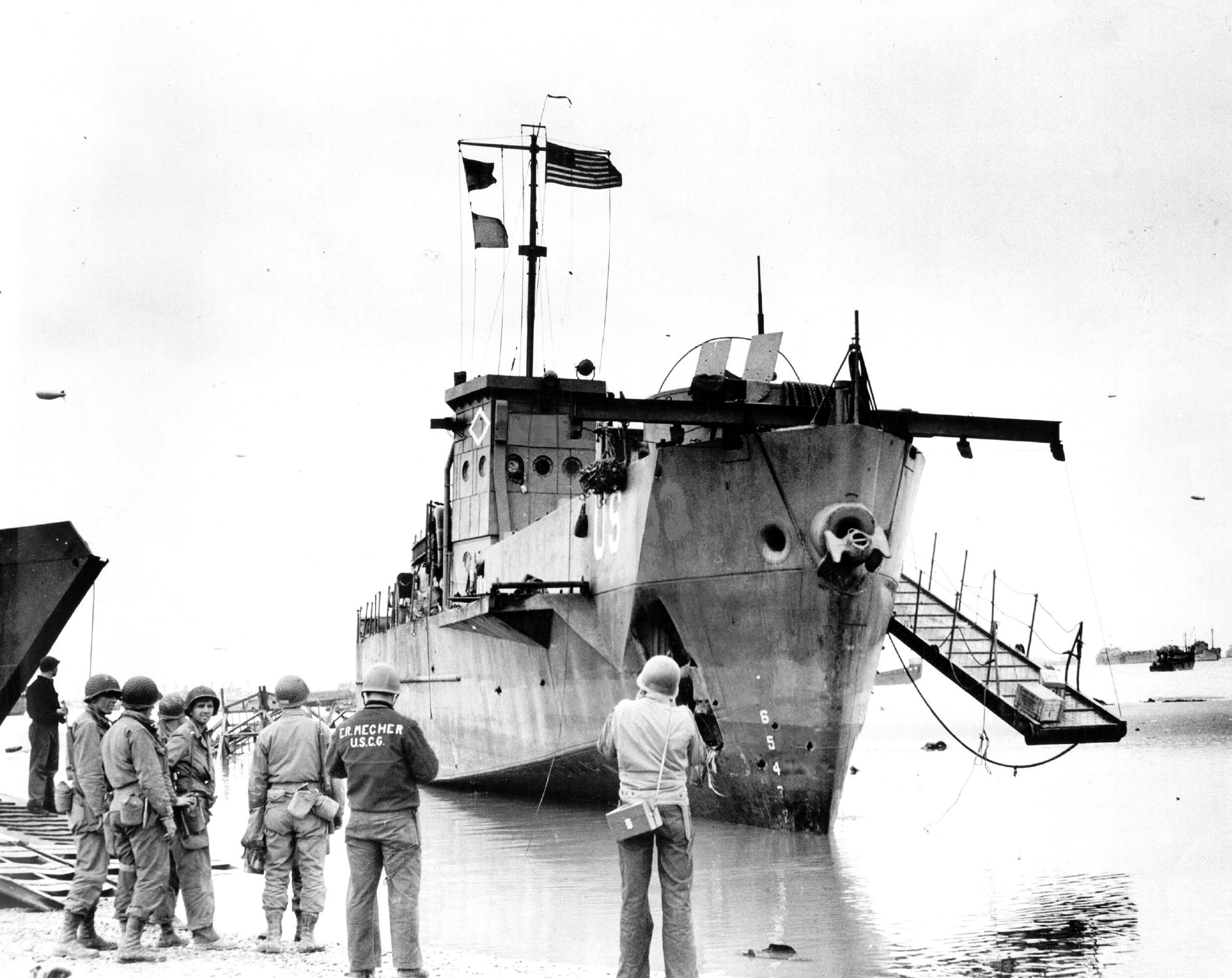 USS LCI(L)-93 aground on Omaha Beach, date unknown. She still flies her flag, though knocked out of the invasion ripped and wounded on the beach. Moving in for a landing, USS LCI(L)-93 ran afoul an underwater obstruction which tore a gaping hole in her bow. Then, as her troops piled ashore, Nazi shells battered her out of further action. US Coast Guard photo # 2395 from the collections of the US Coast Guard Historian's Office.